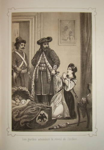 Litho TSAR IVAN VI RUSSIE RUSSIA ROMANOV c1850